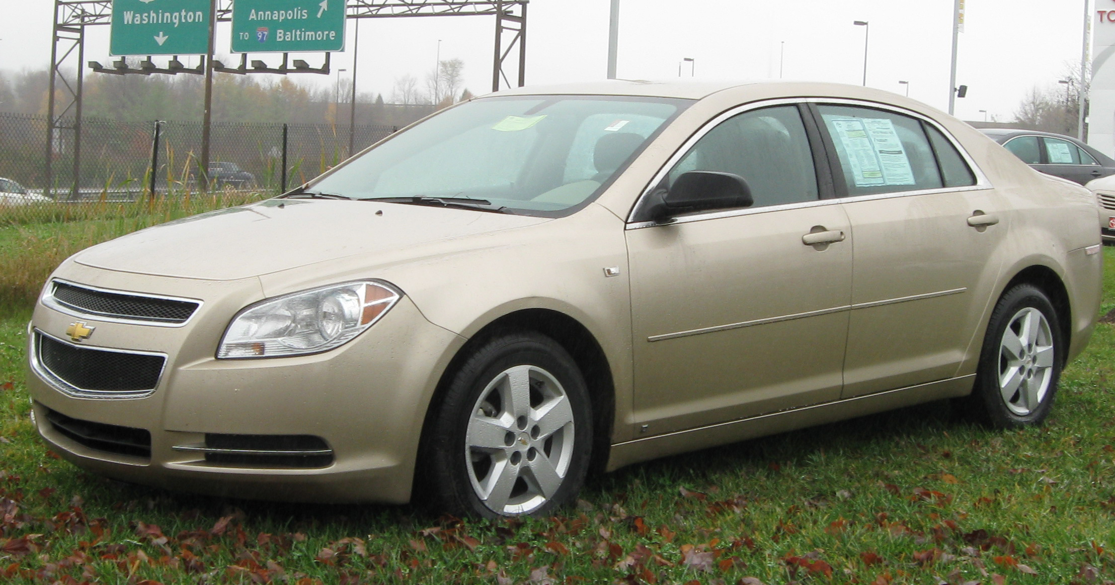 2008 Chevrolet Malibu photographed in Bowie, Maryland, USA.